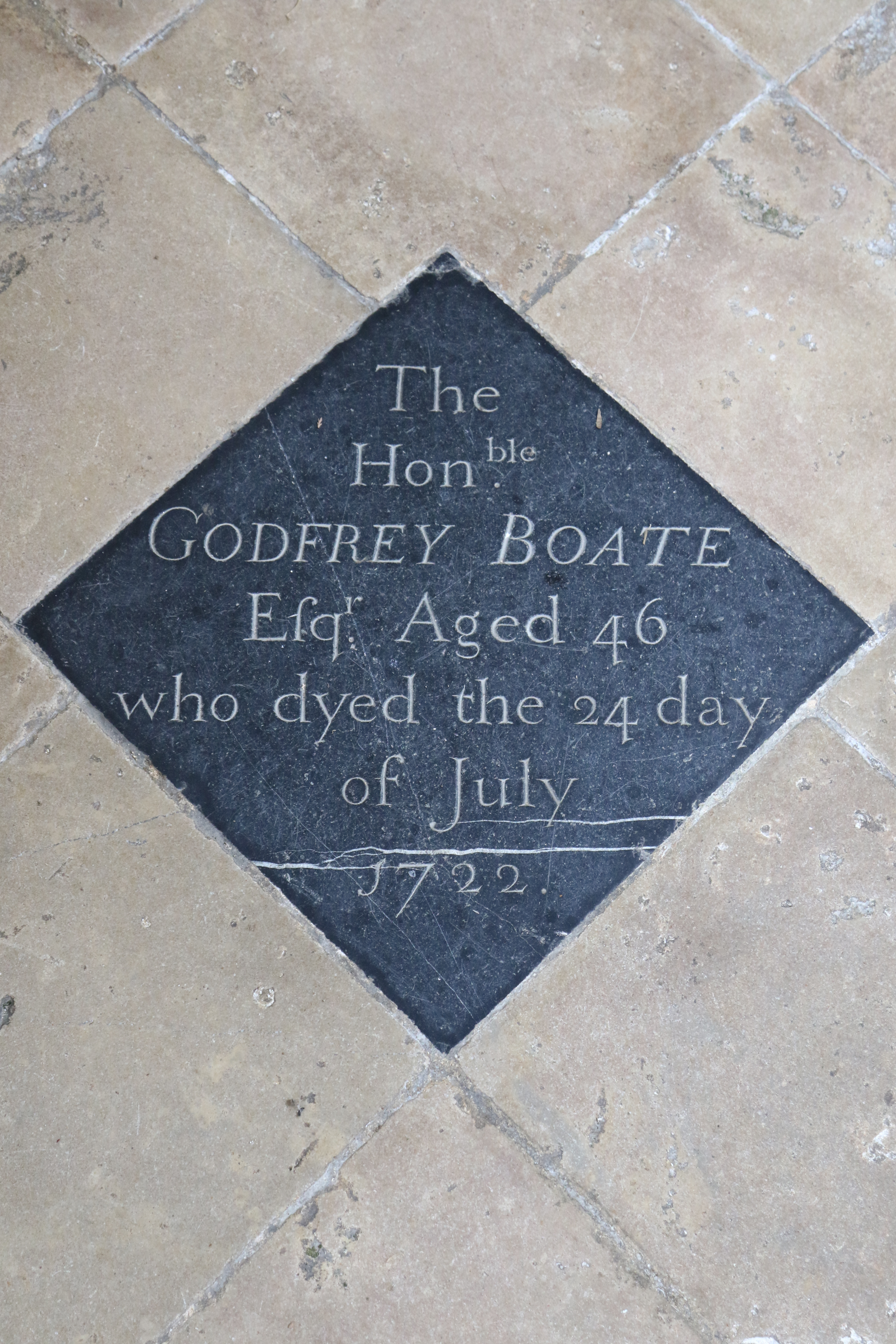 The Honble Godfrey Boate Esqr Aged 46 who dyed the 24 day of July 1722